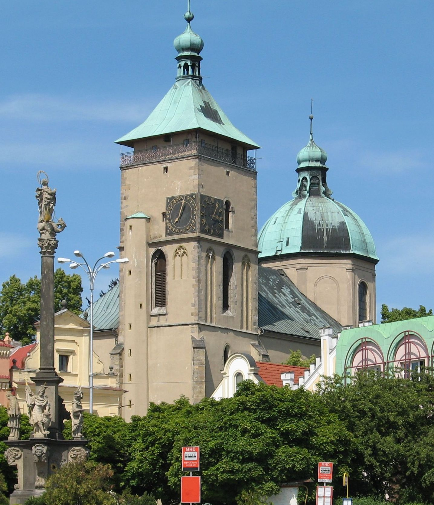 Church of the Assumption in Havlíčkův brod, Czech Republic